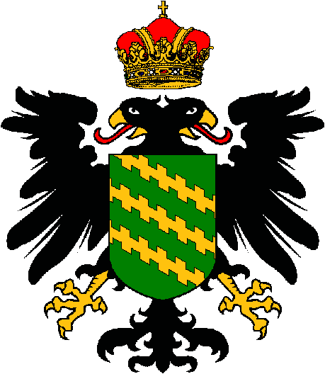 Coat of arms of the Trissino family